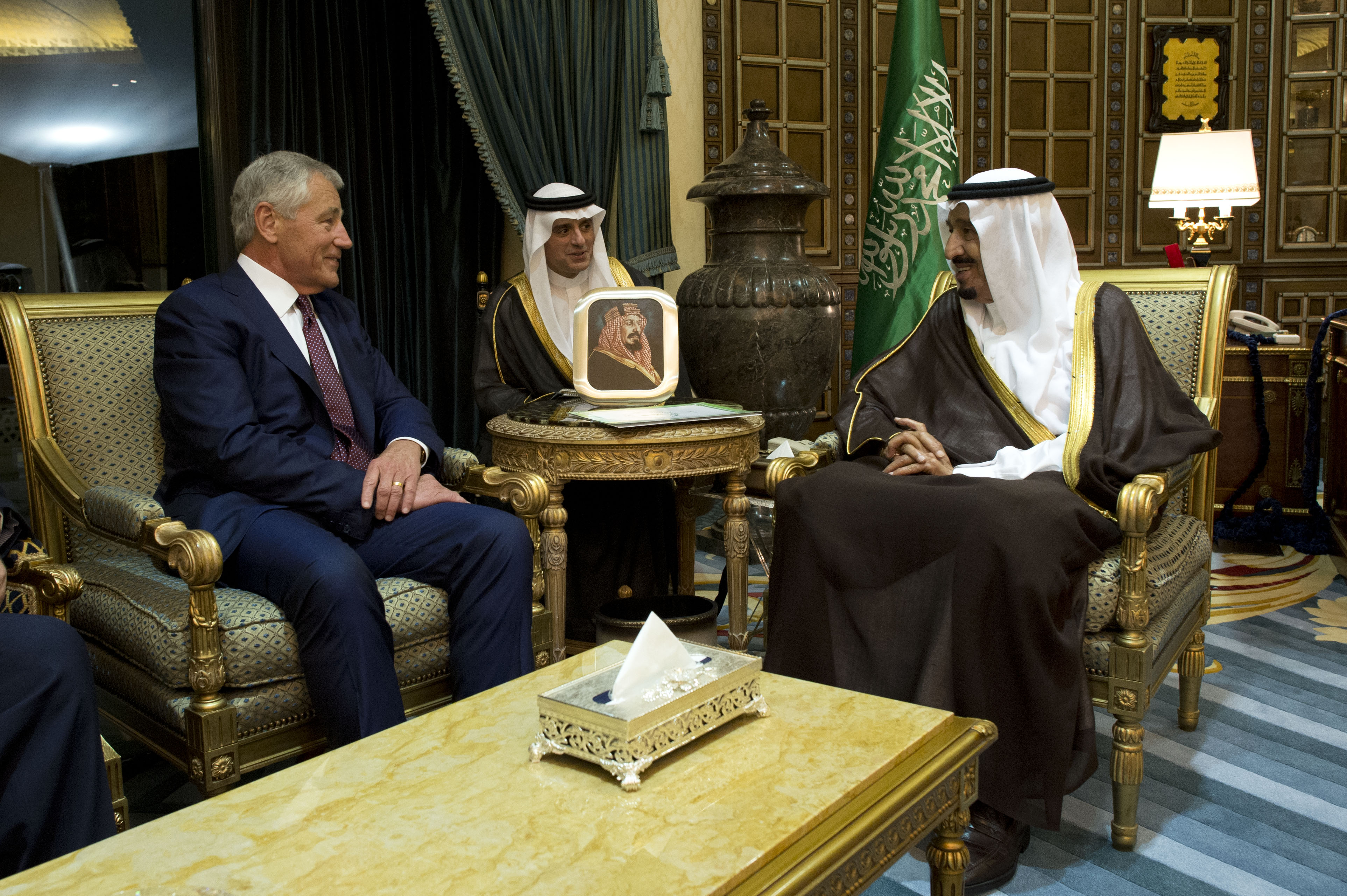 Secretary of Defense Chuck Hagel meets with Crown Prince and Minister of Defense Salman bin Abdulaziz al Saud in Riyadh, Saudi Arabia, April 23, 2013. The Kingdom of Saudi Arabia is Hagel's third stop on a six day trip to the middle east to meet with defense counterparts.(Photo by Erin A. Kirk-Cuomo) (Released)